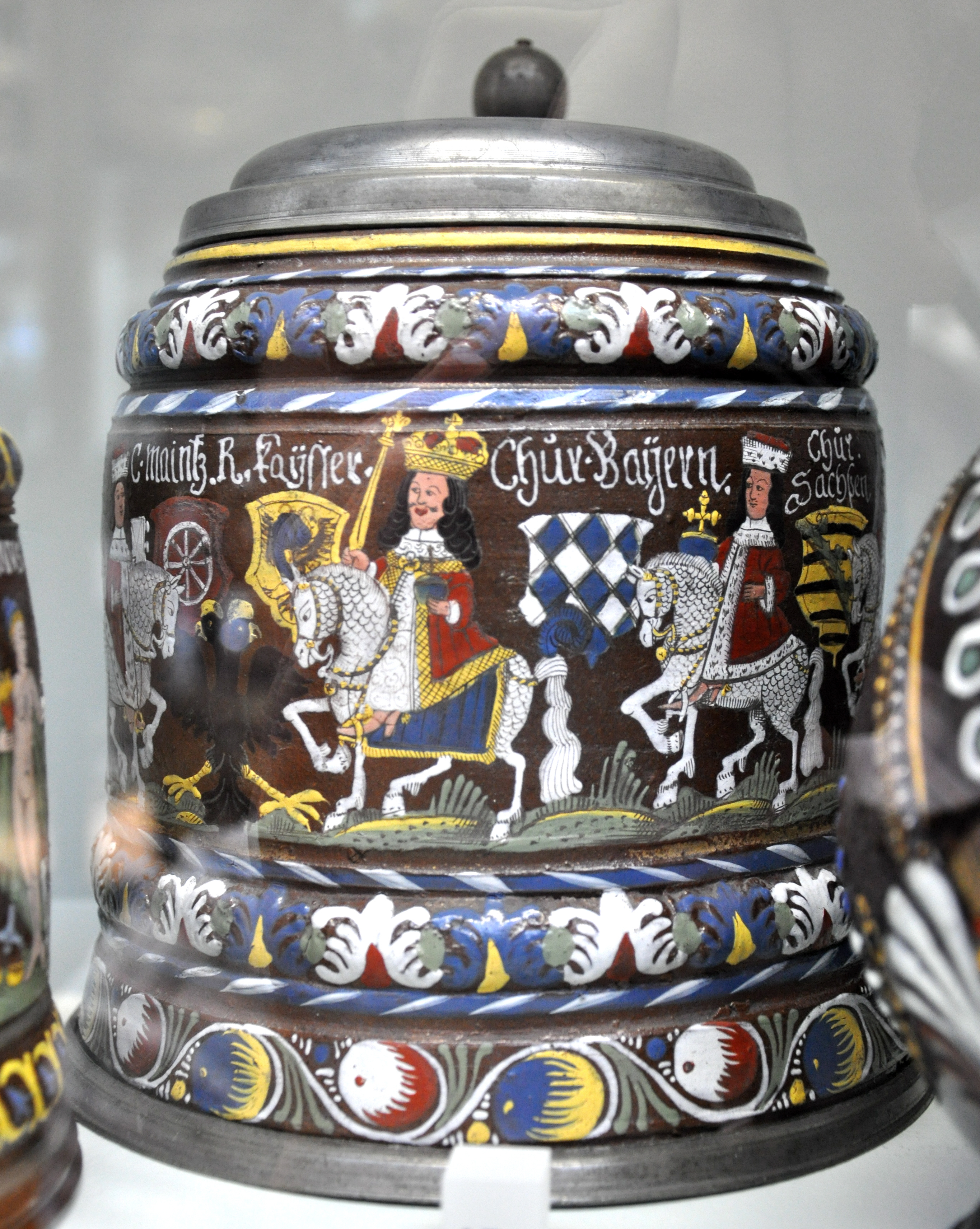 Kurfürstenhumpen, Creussen 1696, stoneware painted in overglaze enamels; with peweter cover Victoria and Albert Museum, London, museum no. 1098-1853 (Link)